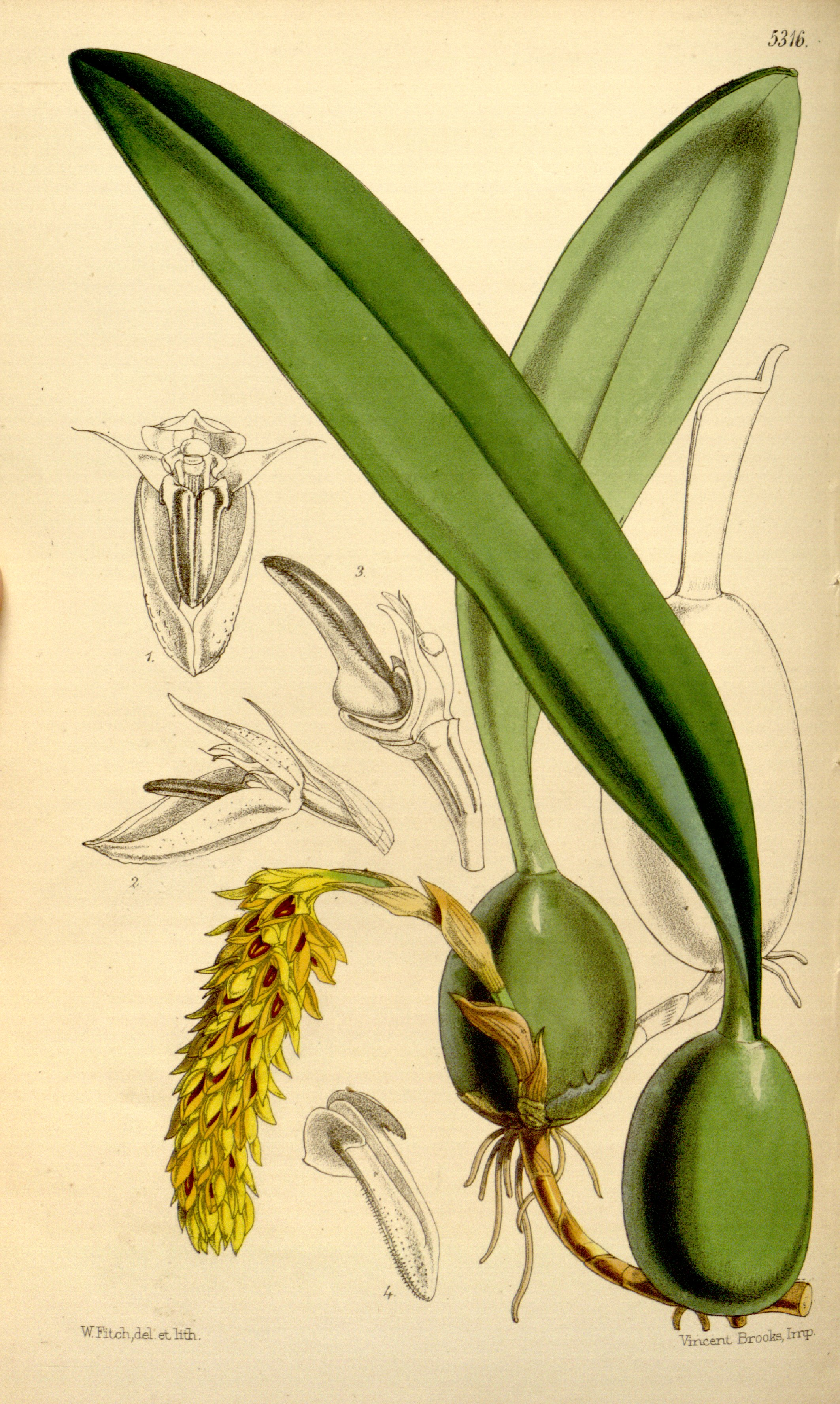 Illustration of Bulbophyllum careyanum (as syn. Bulbophyllum cupreum, spelled by Hooker as Bolbophyllum cupreum)